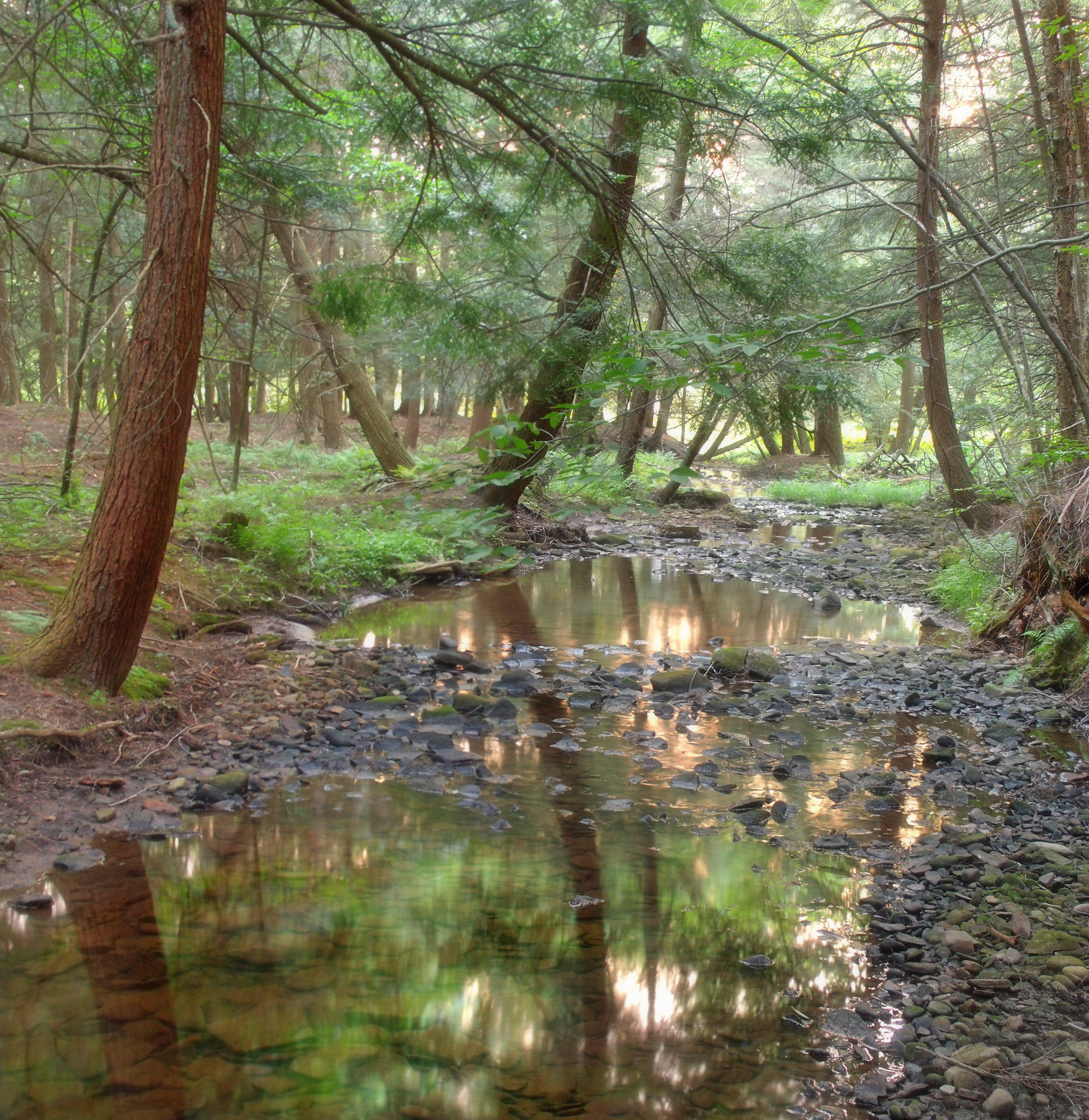 Hemlock palustrine forest, Oswayo Township, Potter County, along an unnamed tributary of Oswayo Creek.